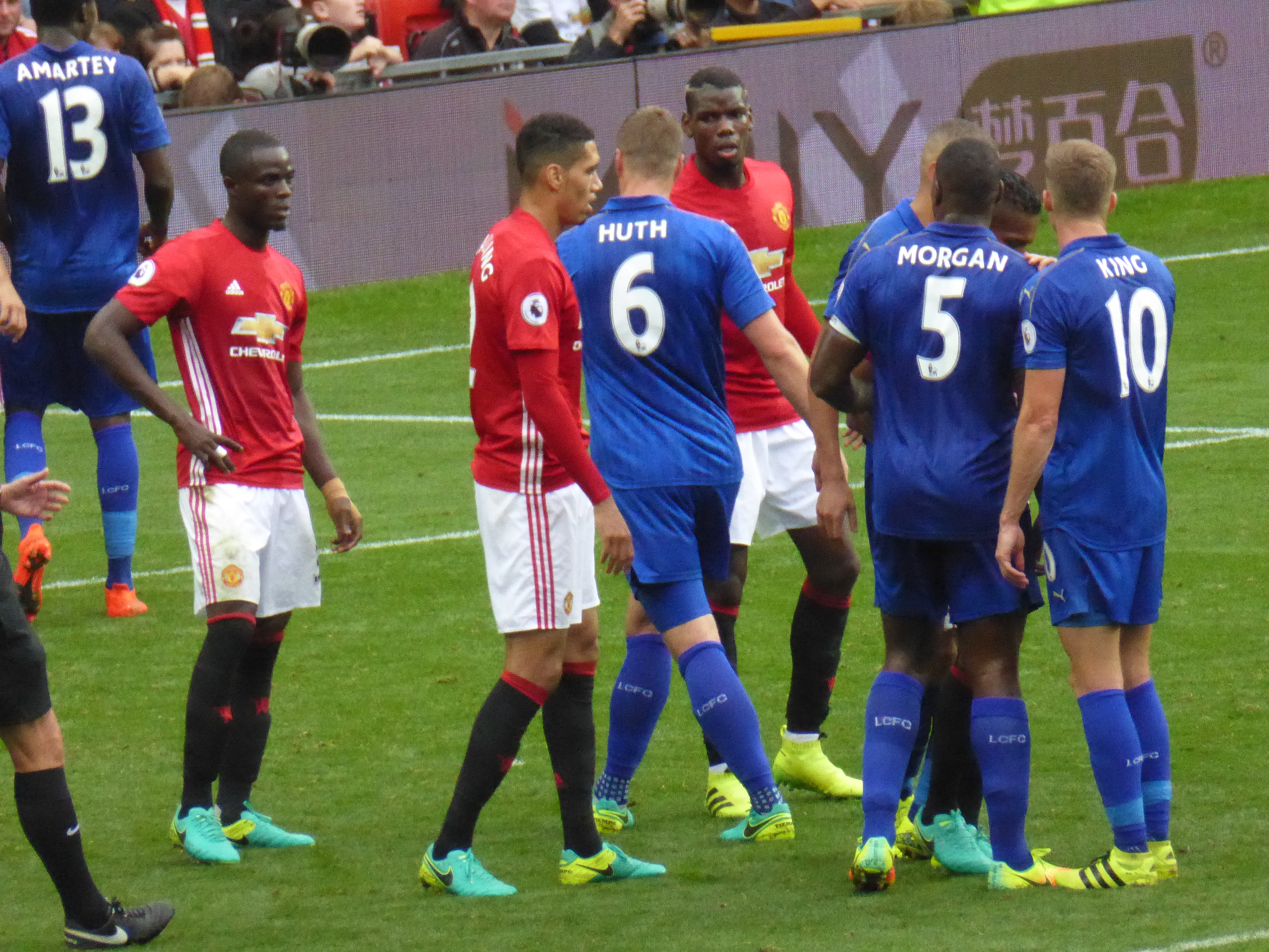 Manchester United v Leicester City (4-1), Old Trafford, Manchester, Greater Manchester, England, September 2016